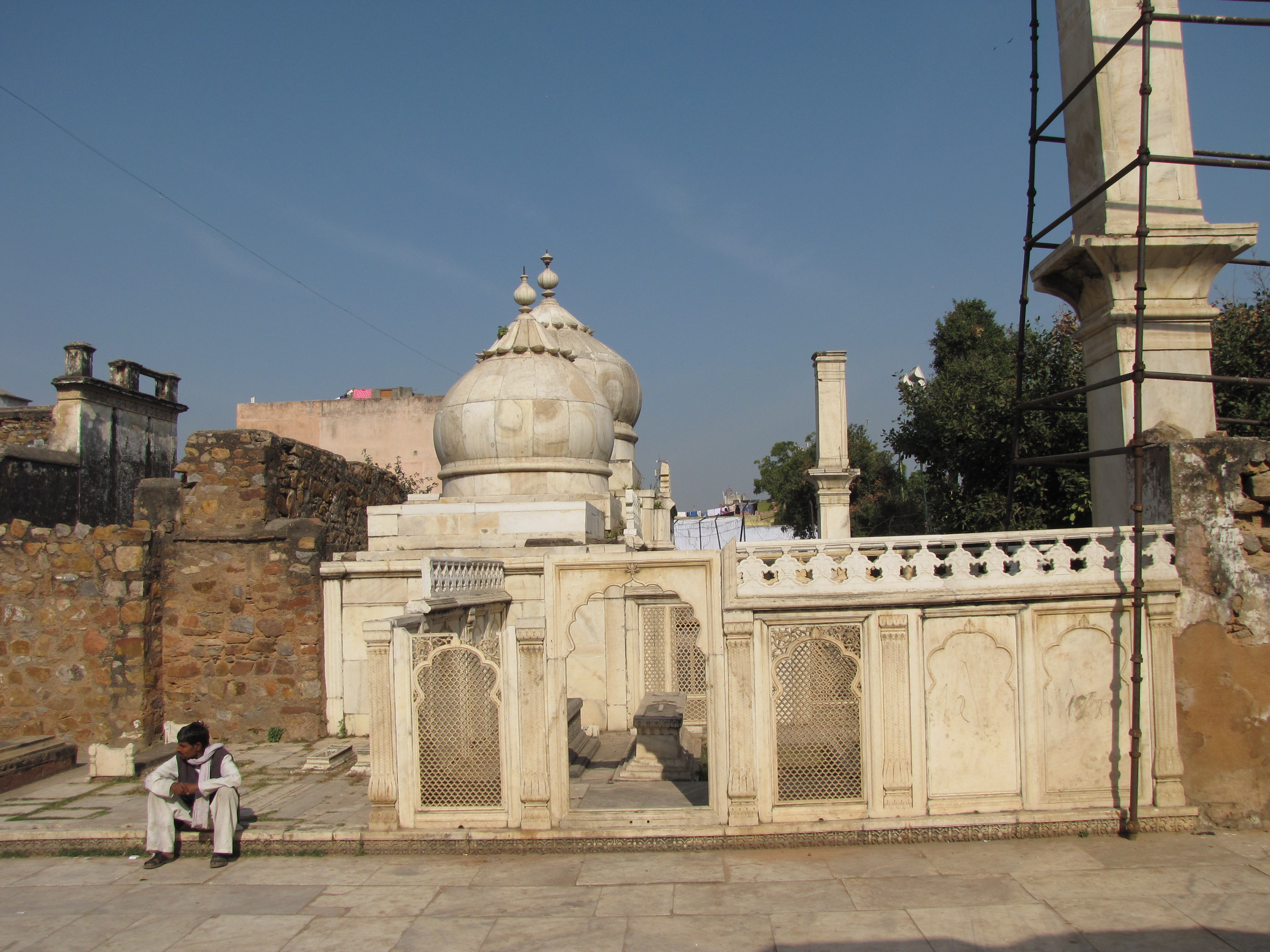 The tombs of the Mughal Emperors Shah Alam II and Akbar Shah II.